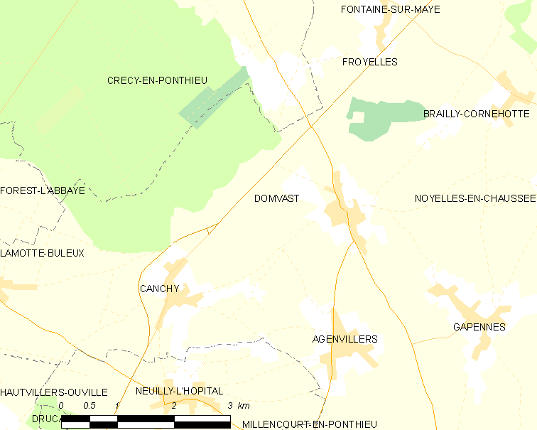 Map of French municipality Domvast